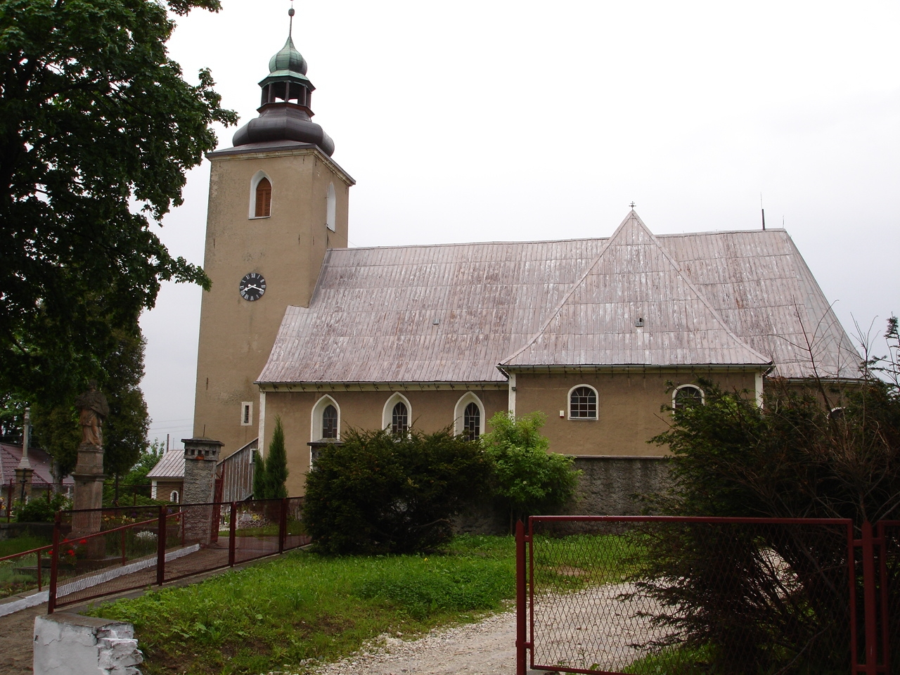 Church of the Assumption in Idzików, Poland